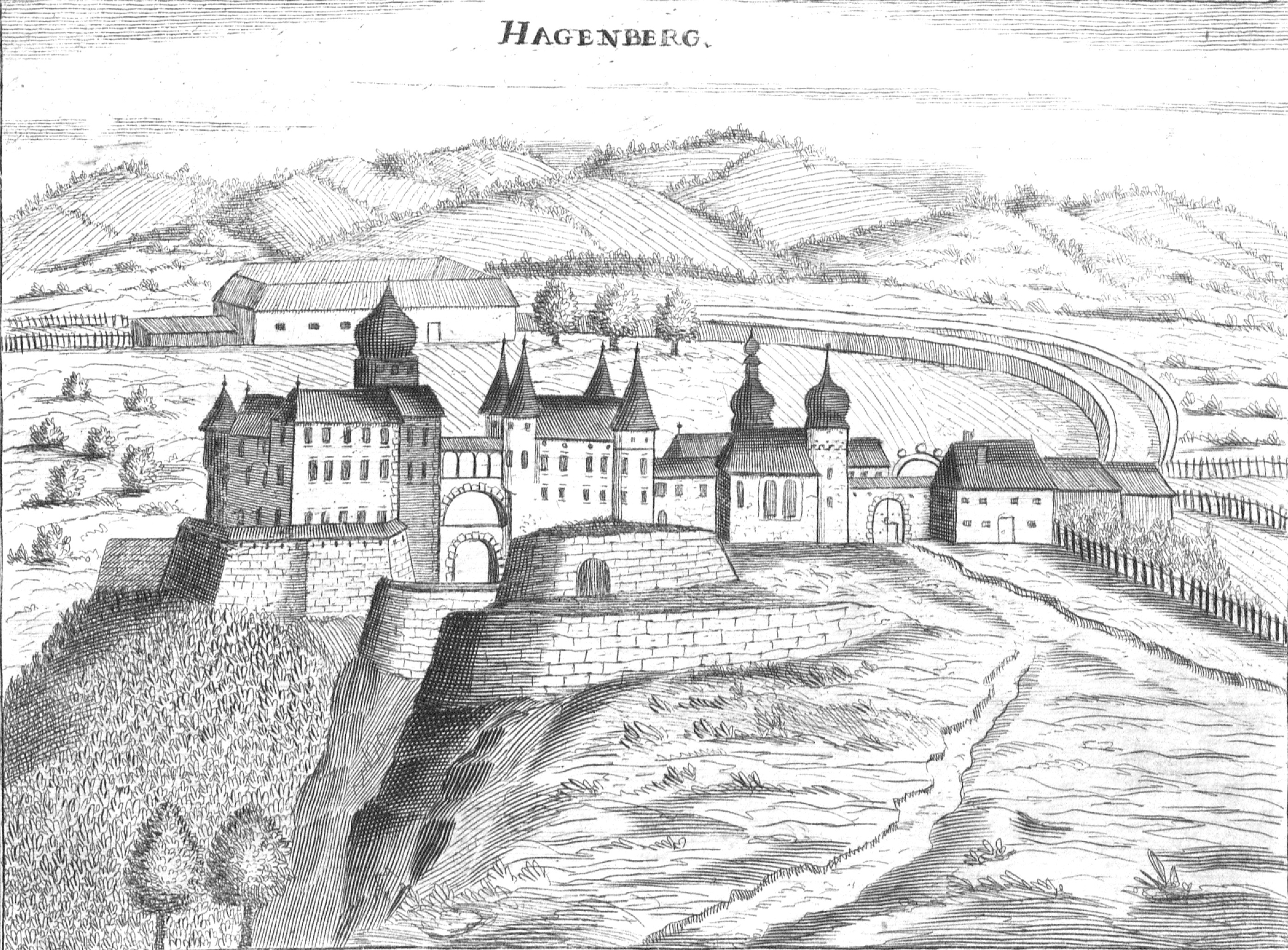 Castle Hagenberg in Hagenberg im Mühlkreis (Upper Austria), drawn by M. Vischer 1674